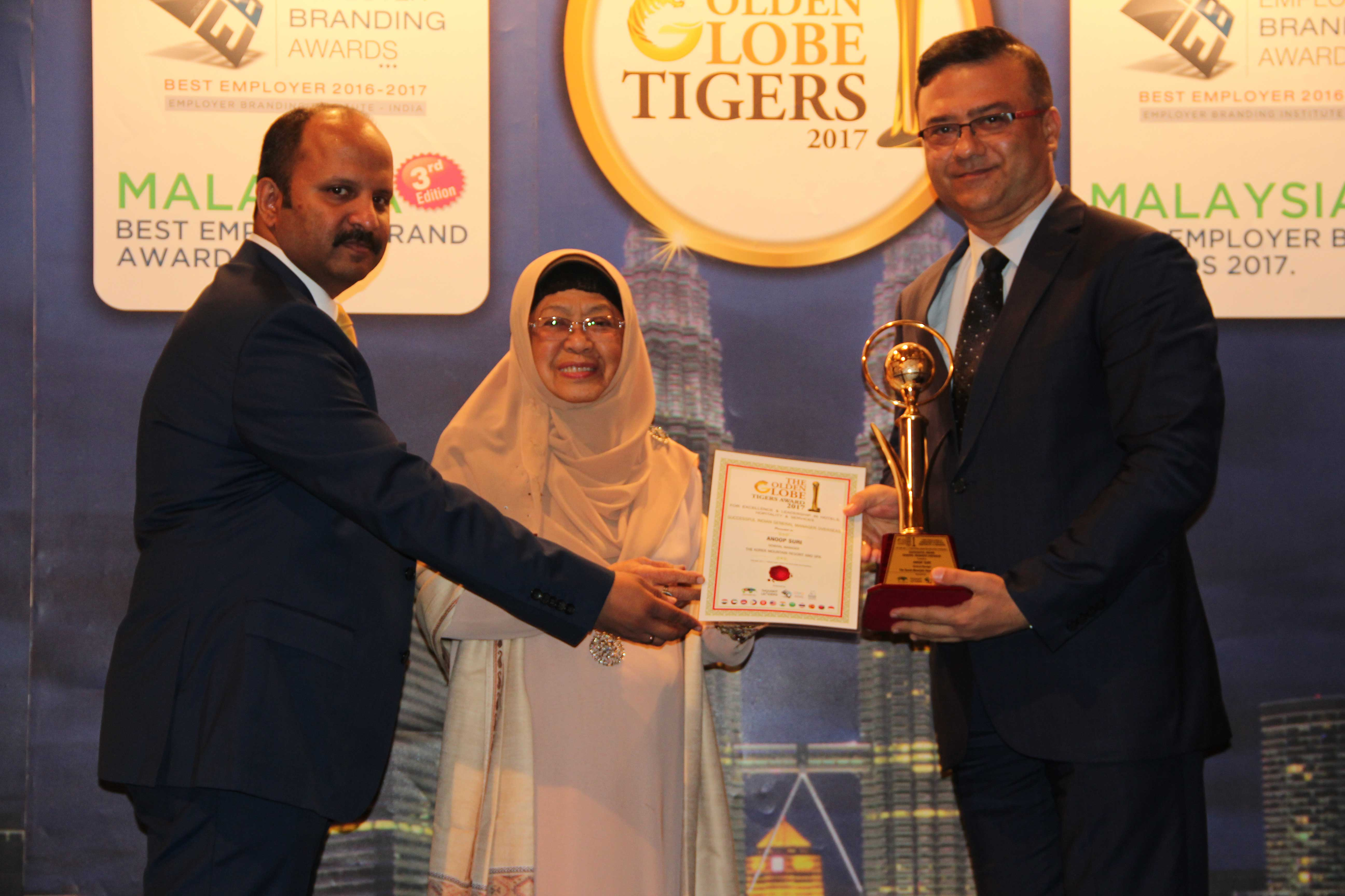 Recieving Award